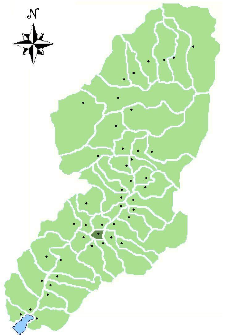 Map of the Comune di Cividate Camuno, Valle Camonica